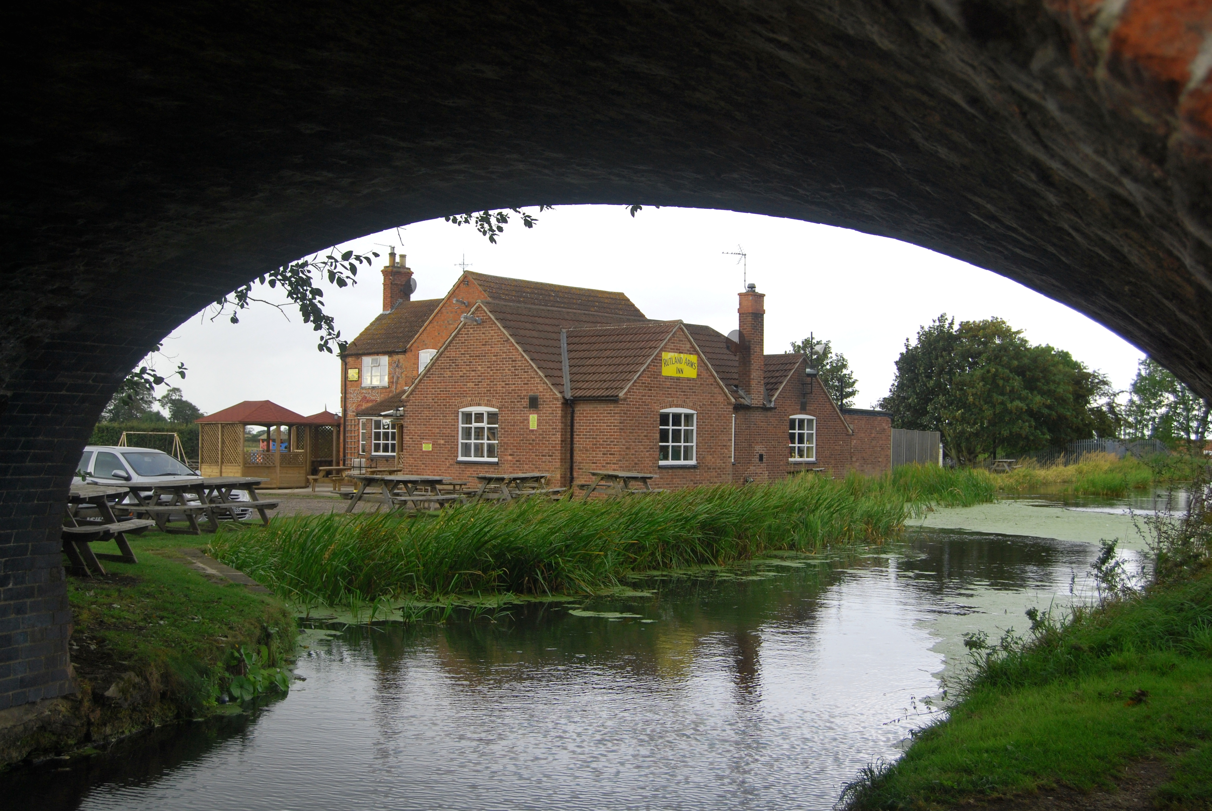 The Mucky Duck pub stands near the Nottingham Grantham canal as it passes near Woolsthorpe by Belvoir. This picture was talen from the towpath through bridge 61.